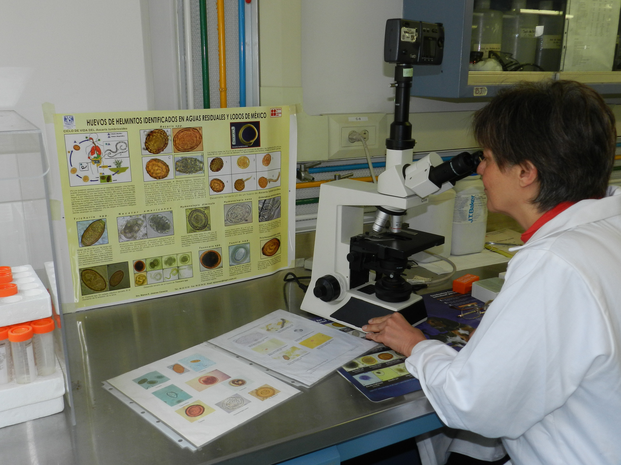 The samples are prepared to be analyzed in the microscope and proceed with the identification and quantification of helminthes eggs.